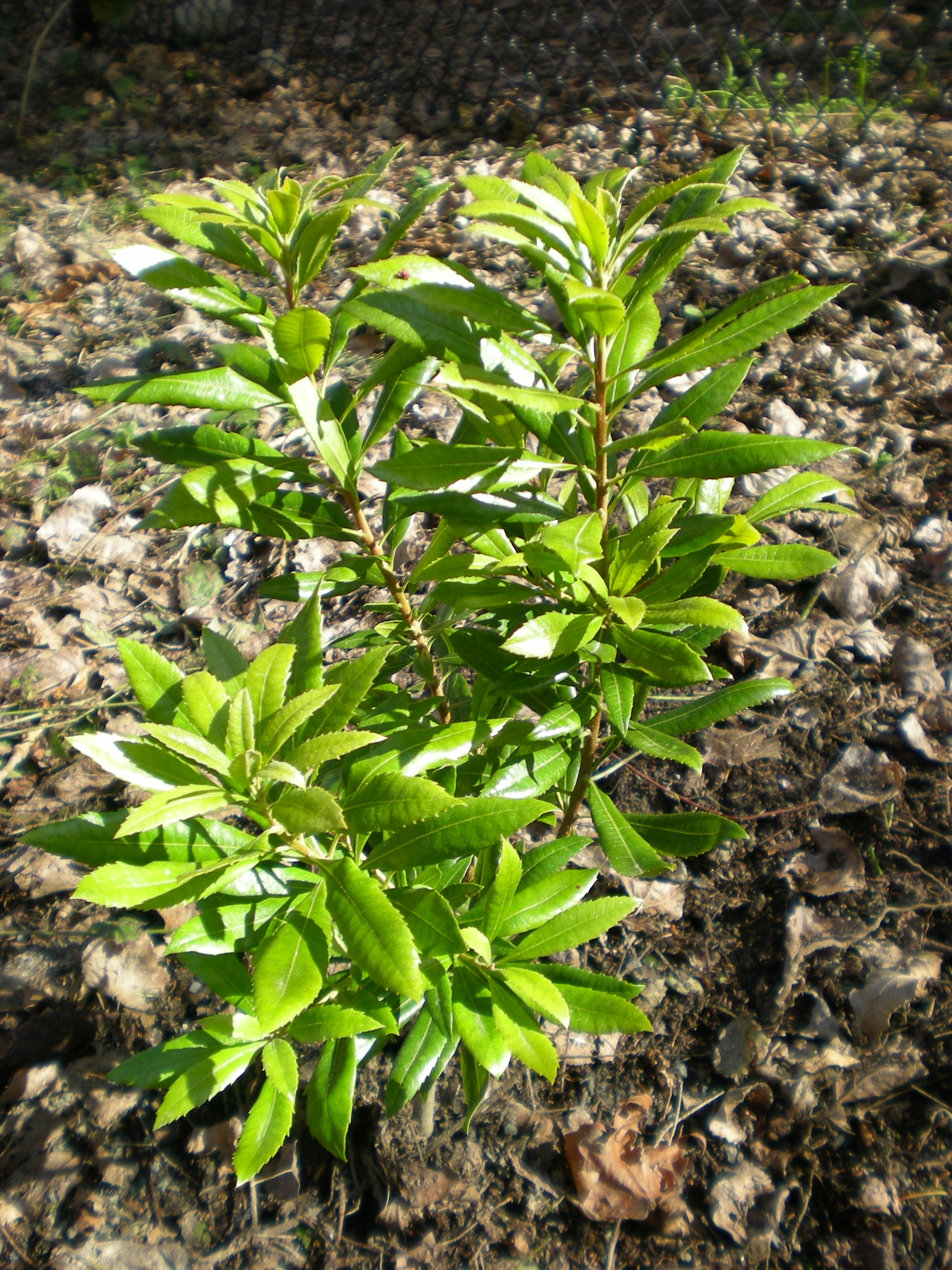 Morella californica (syn. Myrica californica; California Wax-myrtle)